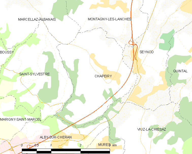 Map of French municipality Chapeiry